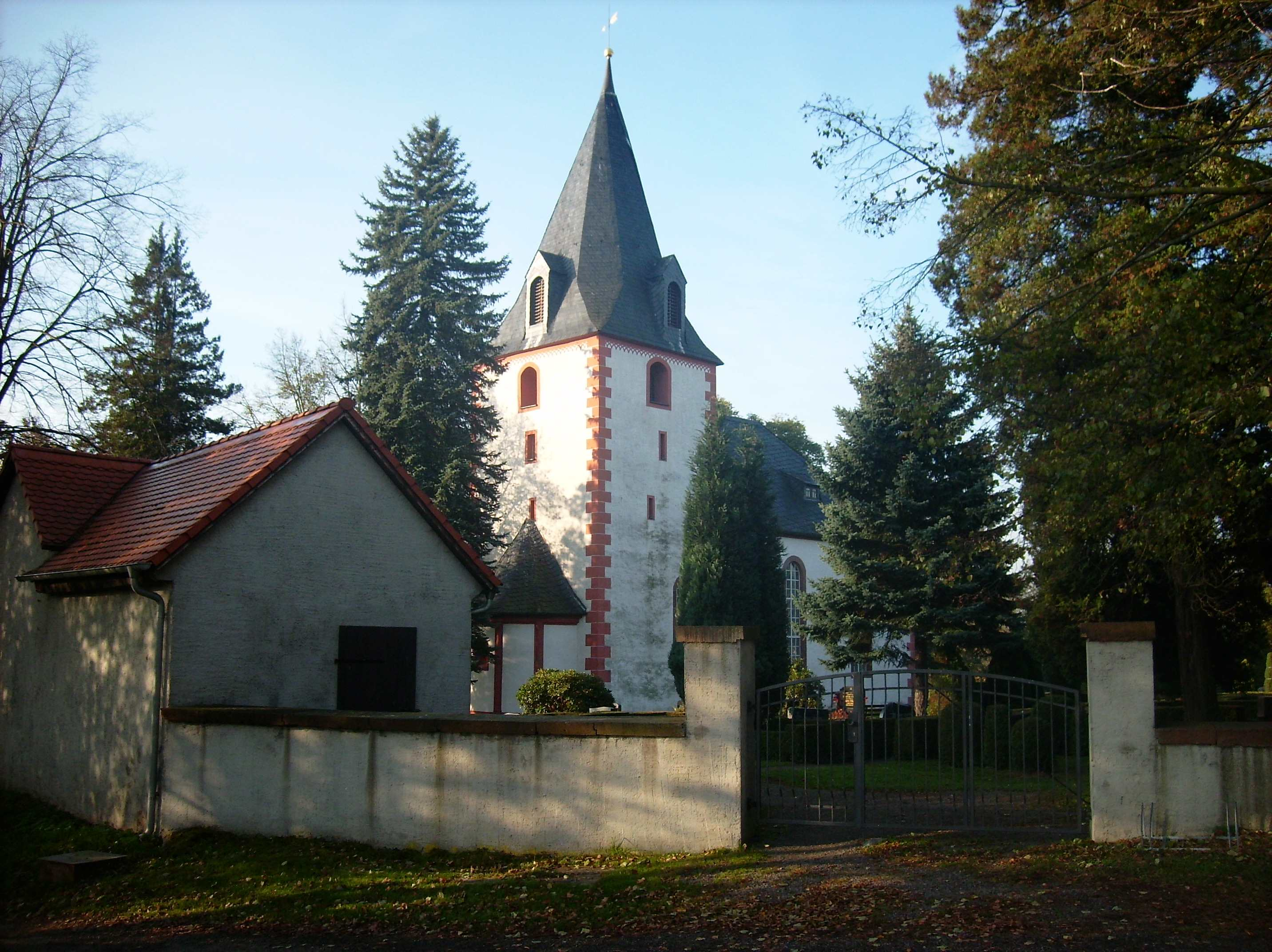 Saint James Church in Obergräfenhain (Penig, Mittelsachsen district, Saxony)